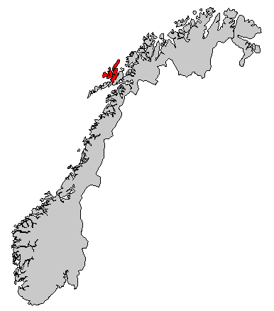 Position of the Vesterålen islands in Norway